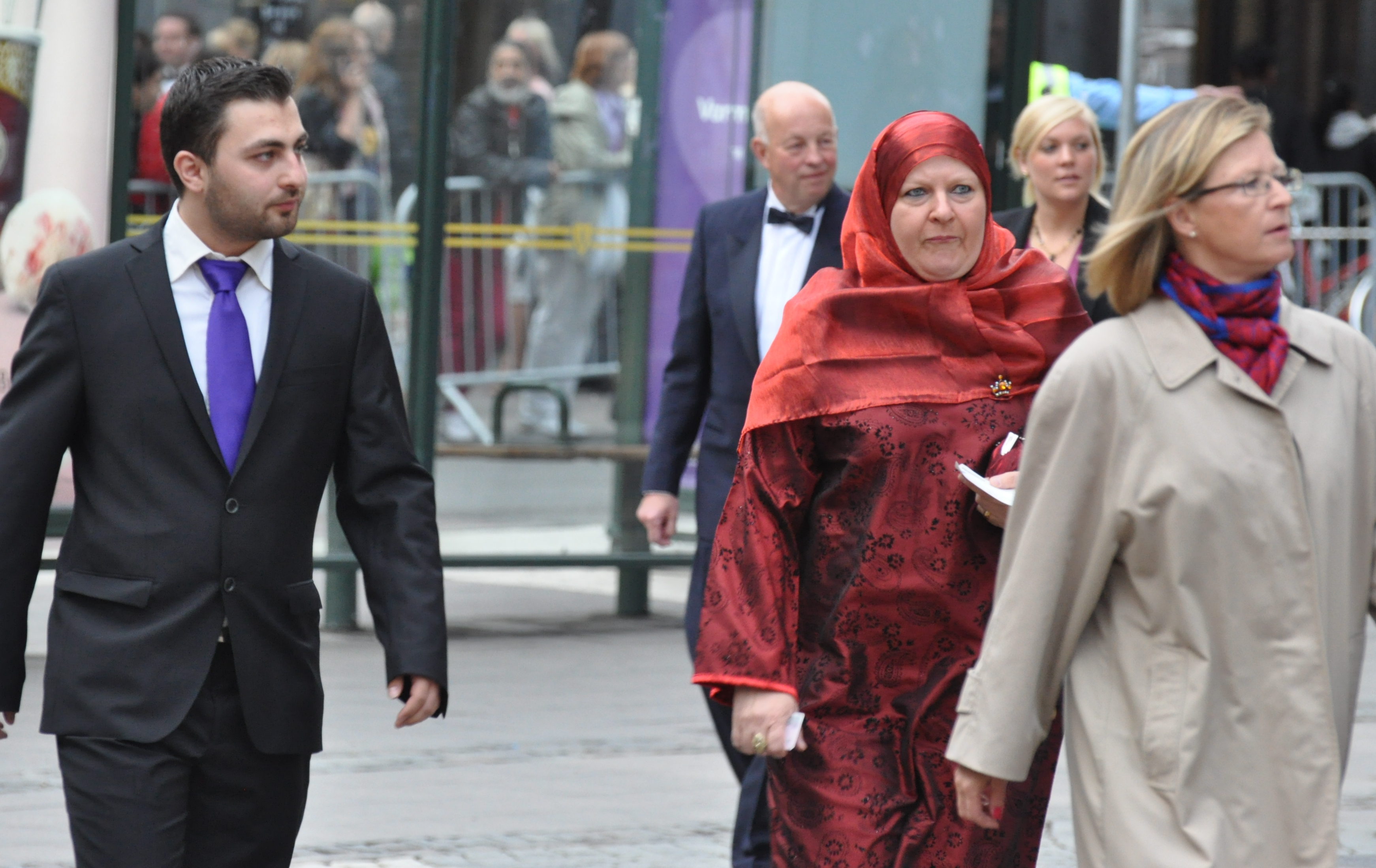 Wedding of Victoria, Crown Princess of Sweden, and Daniel Westling; Arrival of members for the Gouvernment and Swedish and foreign guests of hounour to the Riksdag's Gala Performance at Konserthuset